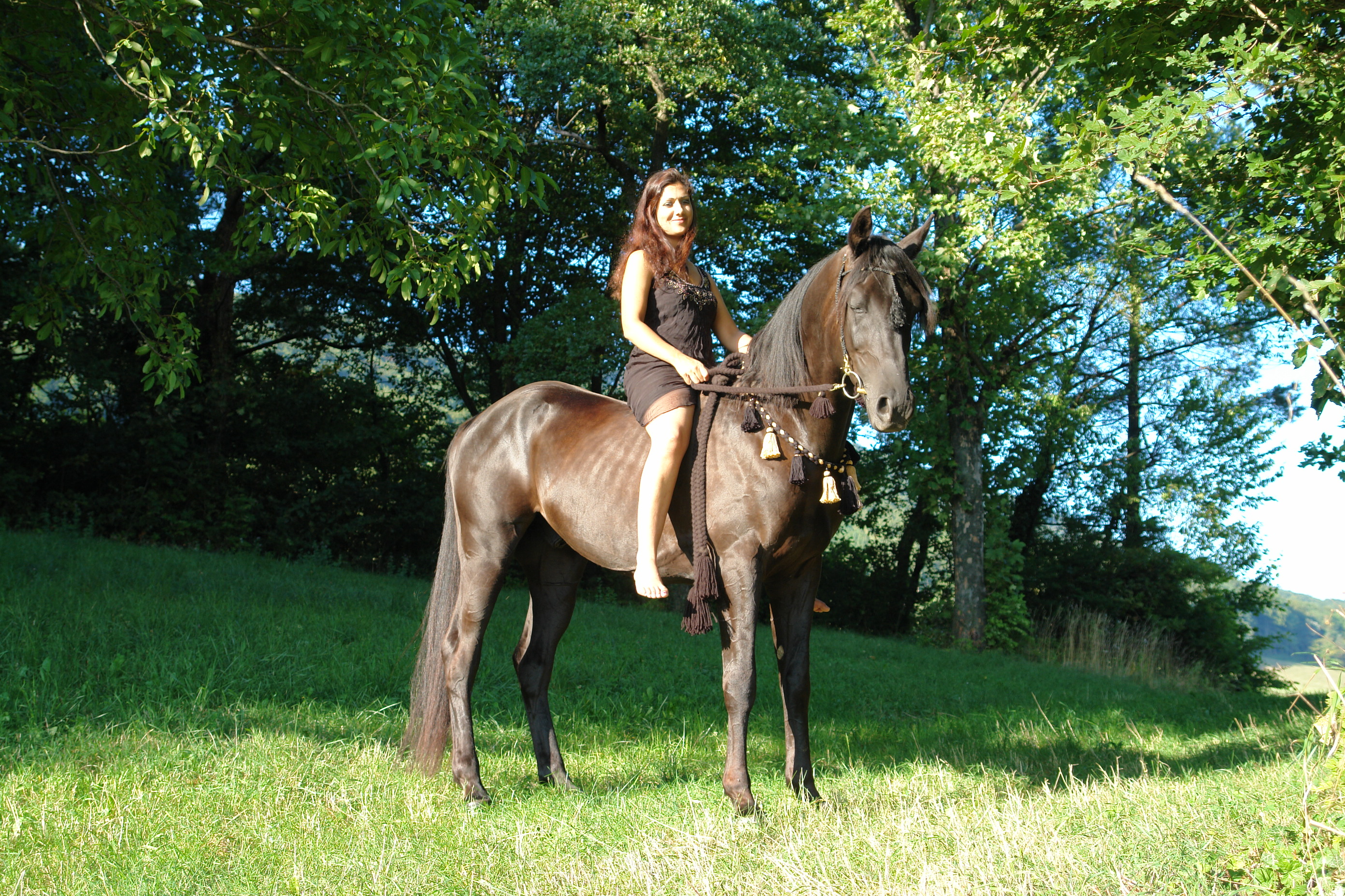 Arabian horse